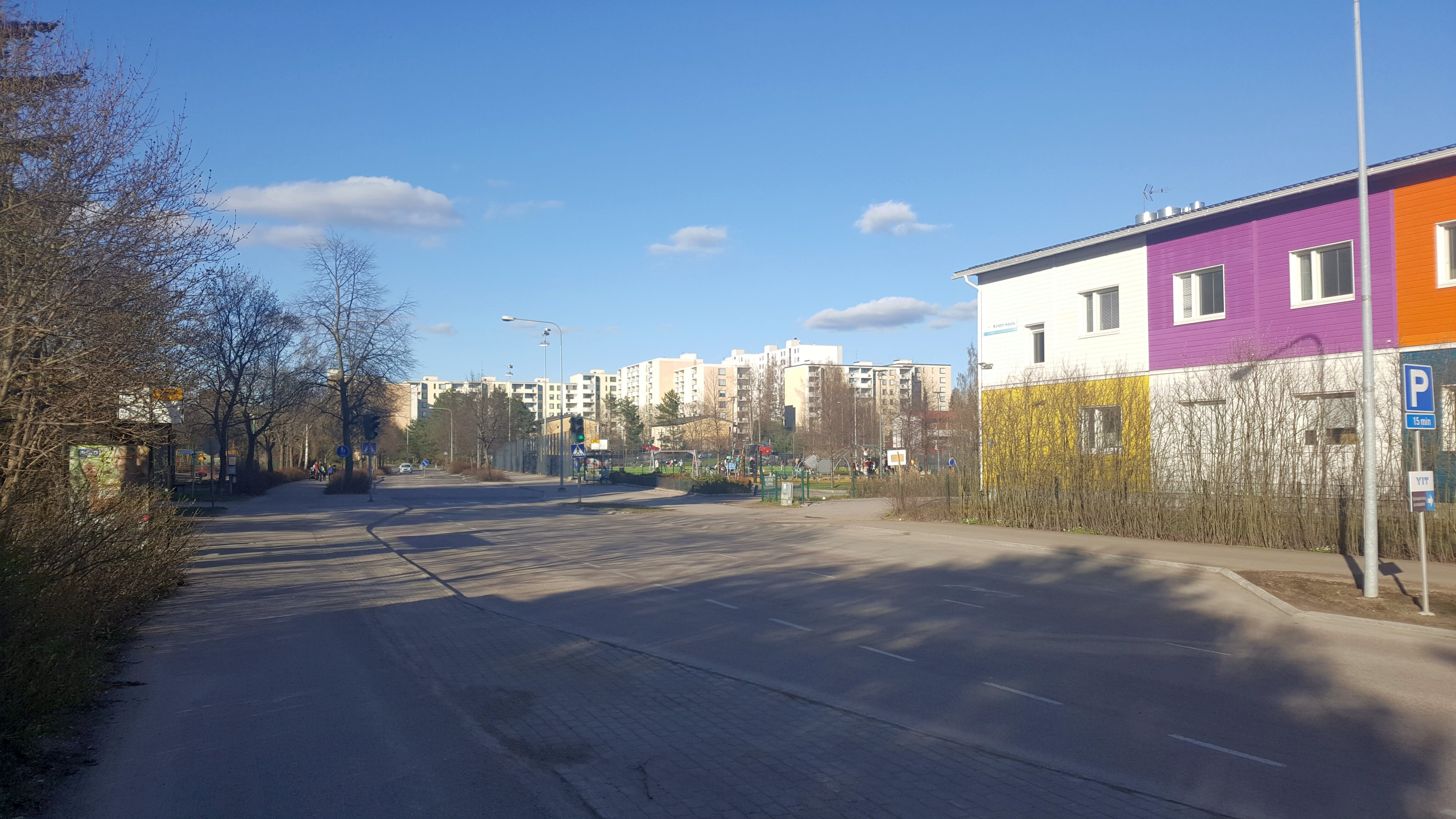 The Suvela neighbourhood in Espoo.